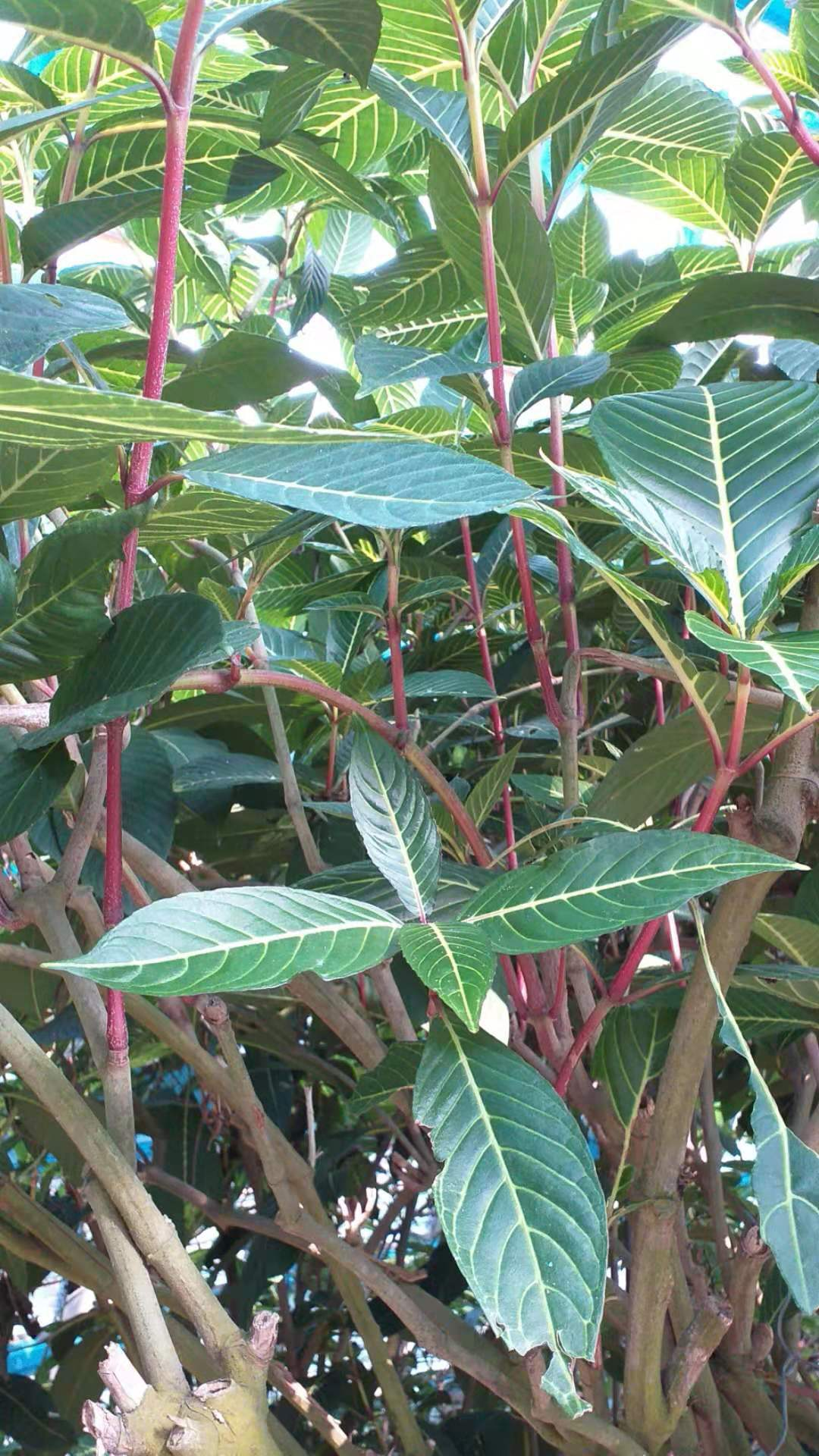 Red young branch of Sanchezia speciosa. Botanical Garden of National Museum of Natural Science, Taichung, Taiwan.